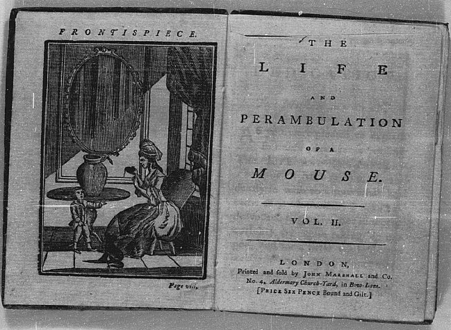 Title page and frontispiece of "Life and Preambulation of a Mouse" vol.2